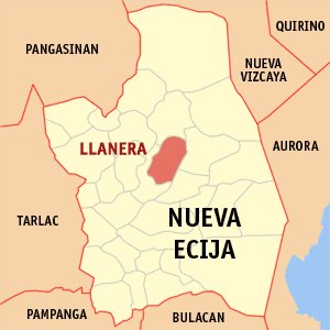 Map of Nueva Ecija showing the location of Llanera